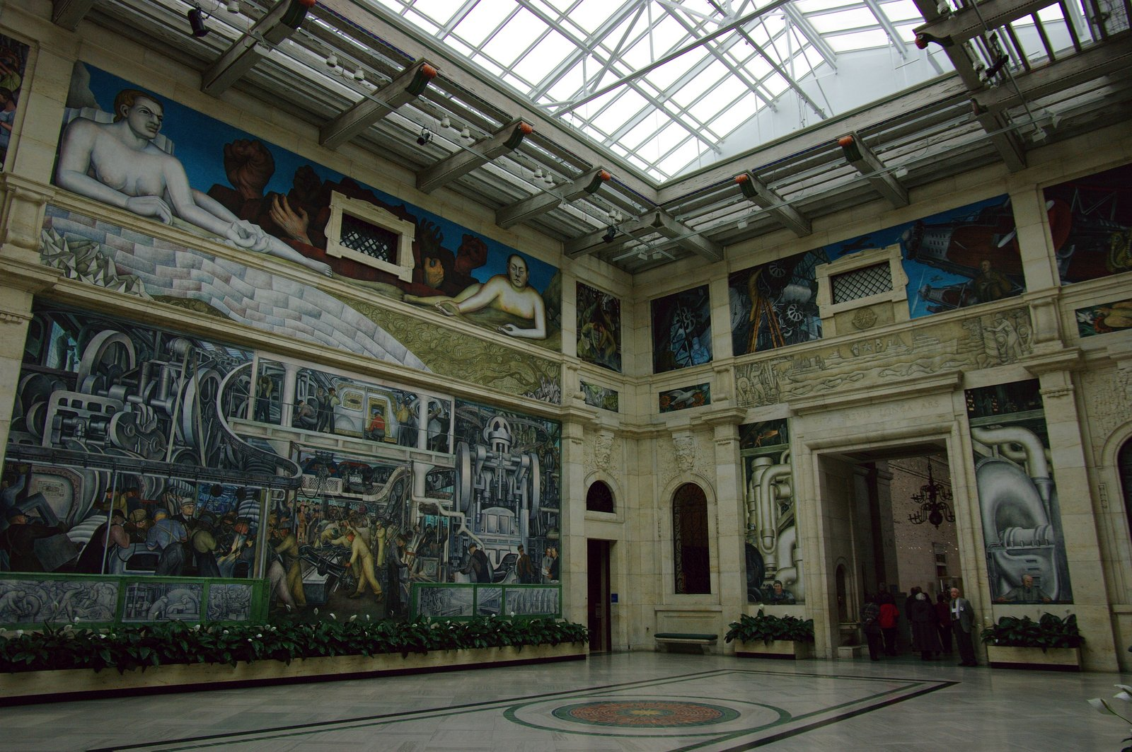 Detroit Institute of Art, Detroit Institute of Art